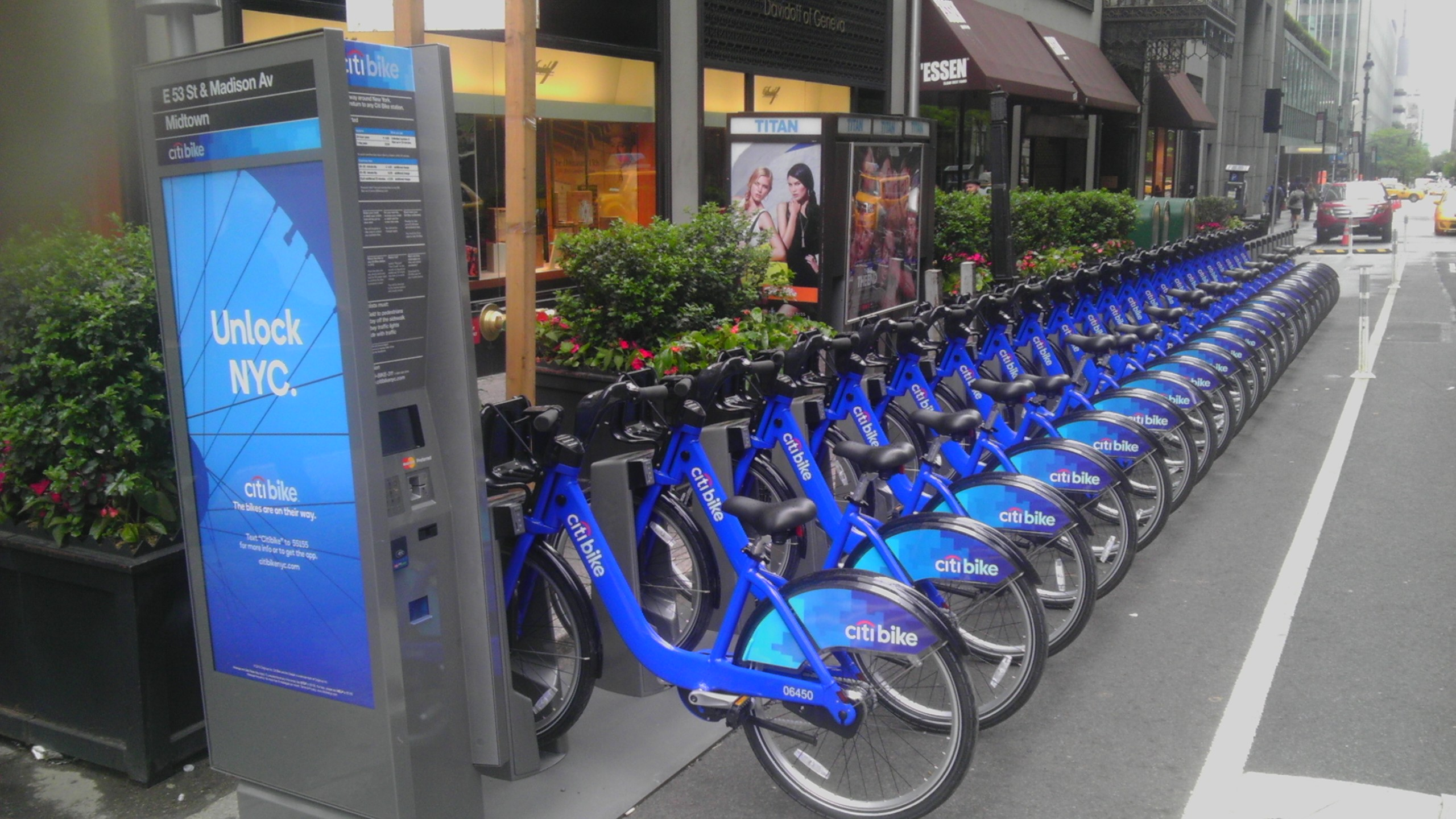 Looking east from Madison Avenue at recently filled station on the north side of 53rd Street on a cloudy midday.